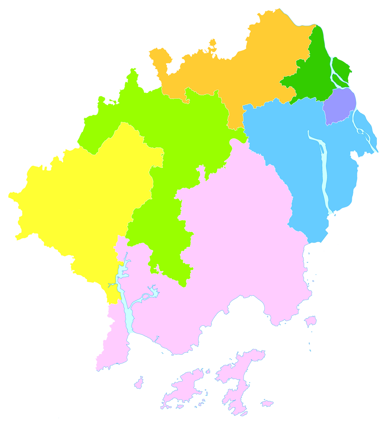 Administrative Division of Jiangmen City, Guangdong, China